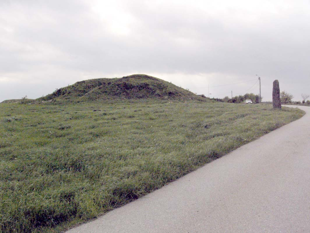 Burial mounds in Karmøy (Norway)